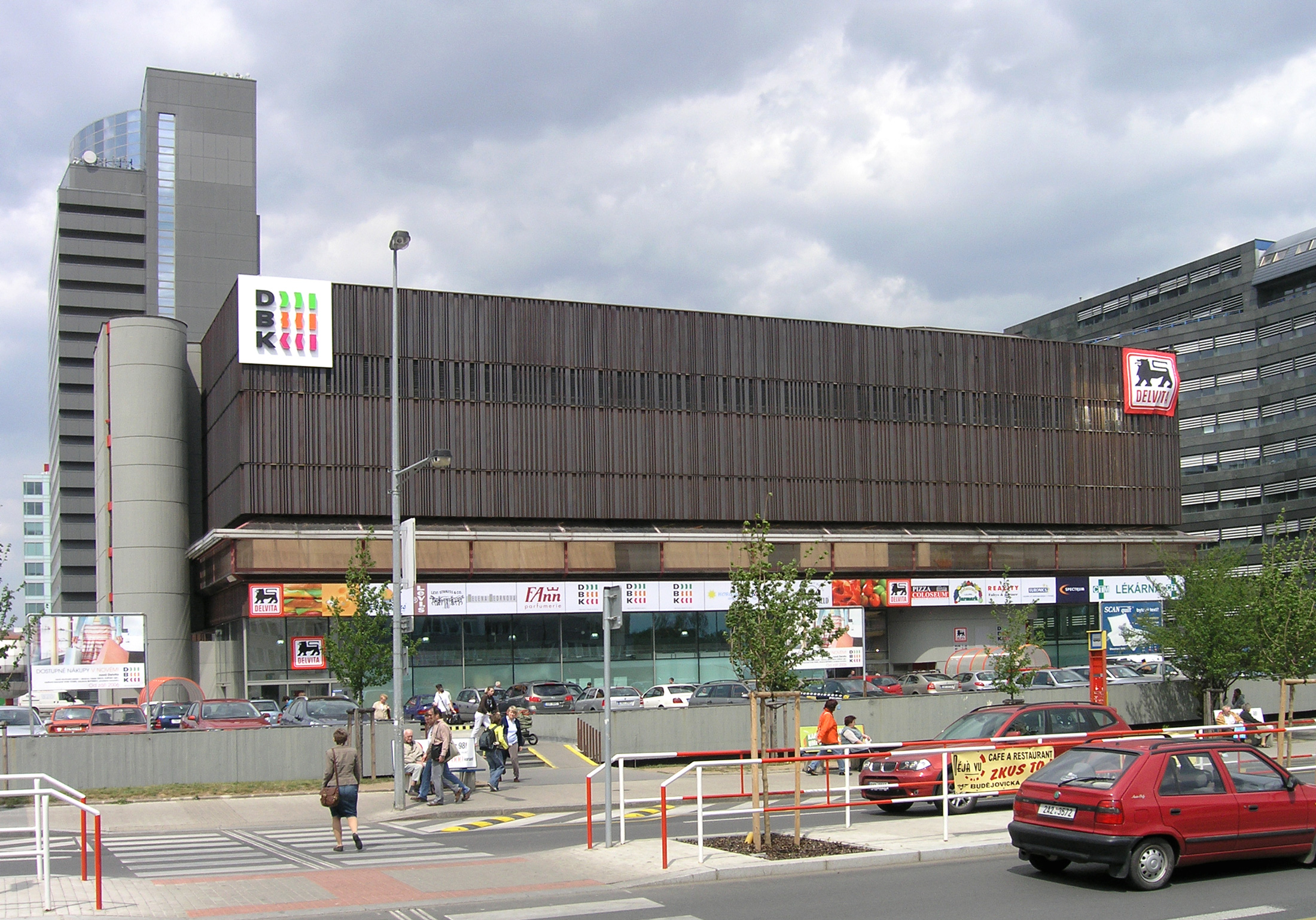 Furniture department store at Krč, Prague